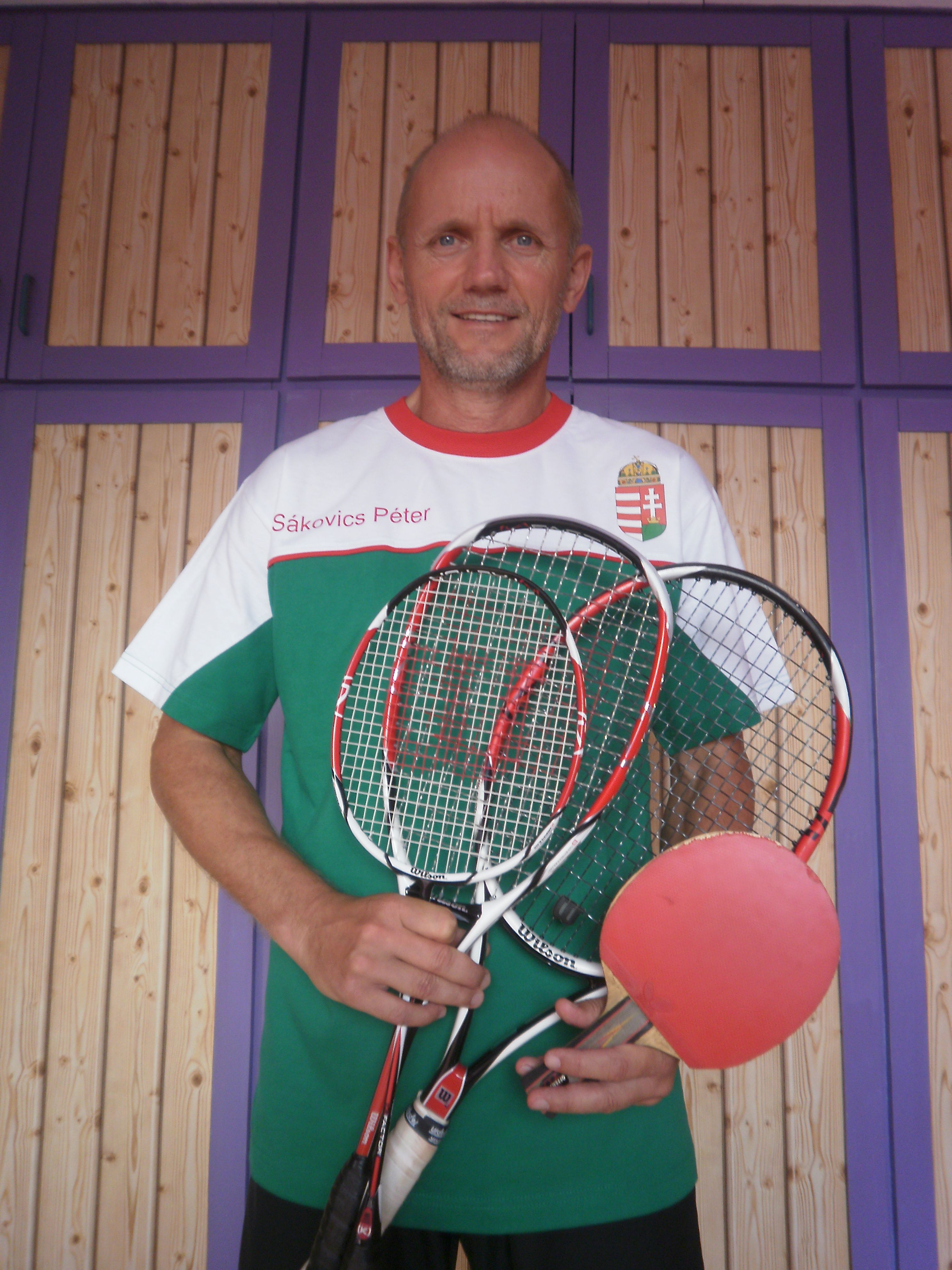 Péter Sákovics, Hungarian racketlon competitor